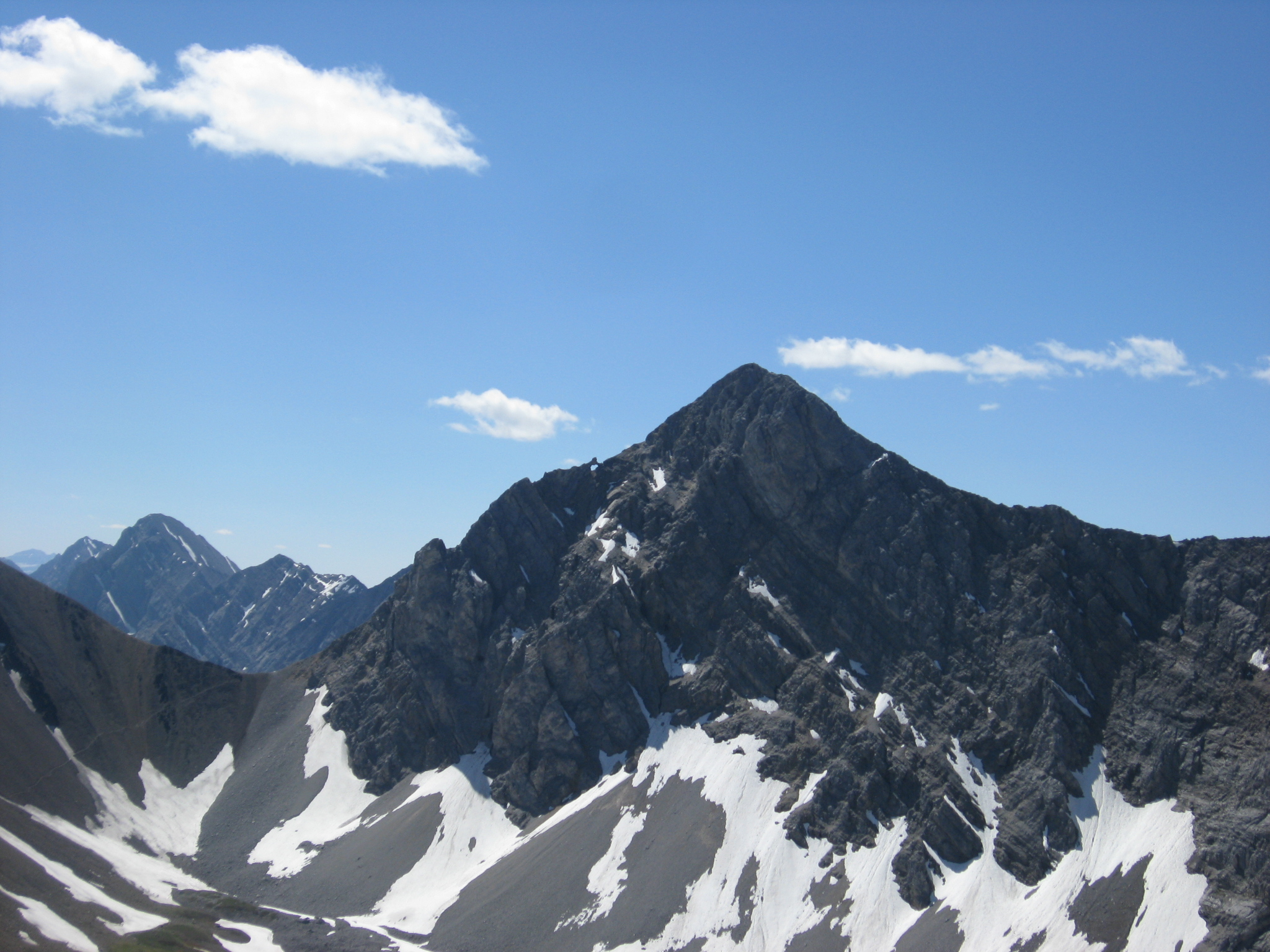 View of Mount Tyrwhitt's north face from Pocaterra Ridge in Alberta, Canada.